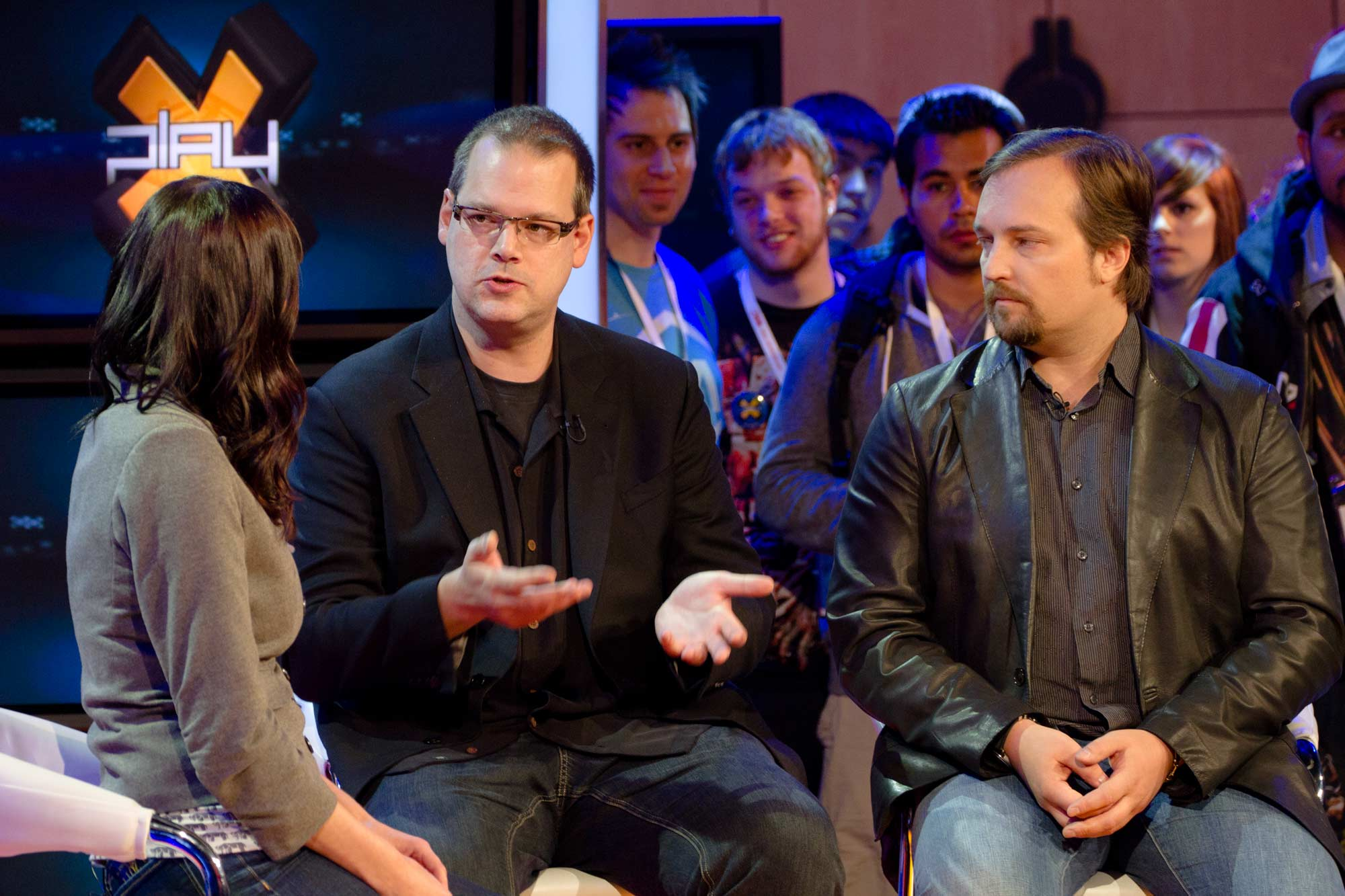 Bioware founders Ray Muzyka and Greg Zeschuk being interviewed by Morgan Webb in 2011.